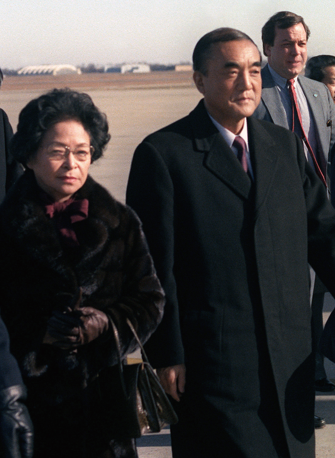 Japanese Prime Minister Yasuhiro Nakasone (中曾根康弘, in office 1982-87) and Mrs. Nakasone at Andrews Air Force Base, MD, USA